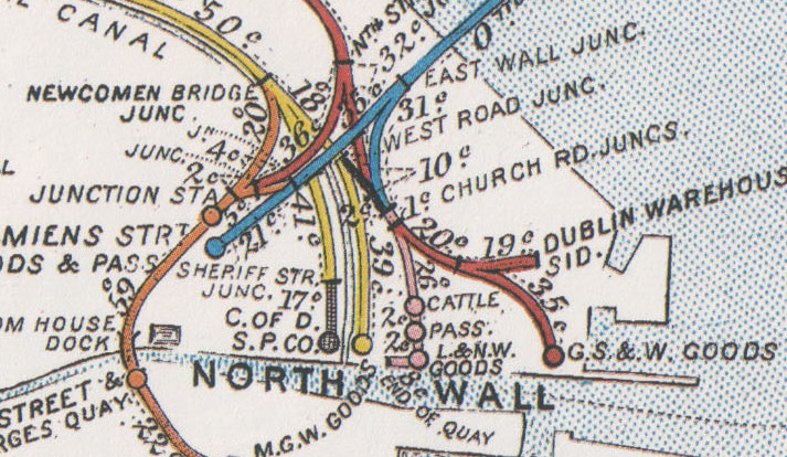 Railway Junctions in Dublin - showing all the mainlines rail systems and their termini and connections